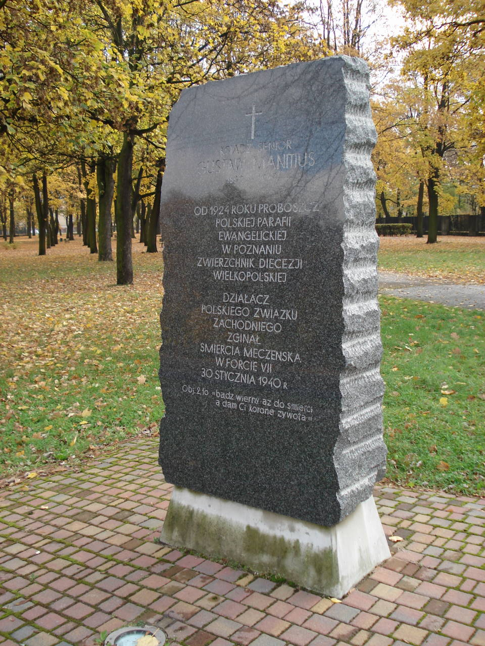 Memorial stone for Rev. Gustaw Manitius (1880-1940) at the Grunwaldzka Street in Poznań, 2002